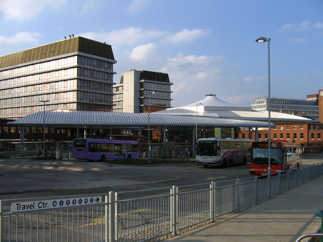 Norwich Bus Station Sited in the extreme south-east corner of the gridsquare, the new Norwich Bus Station opened in August 2005 at a cost of 4.5 million pounds it was built on land part owned by Norwich Union, whose offices can be seen round about. and